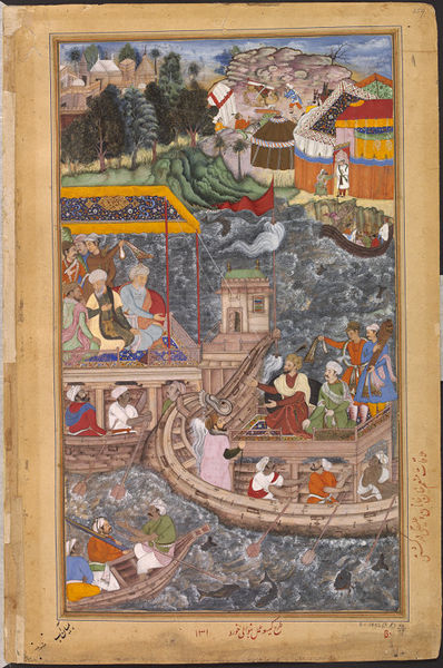 This illustration to the Akbarnama (Book of Akbar) shows an interview that took place in a boat on the River Ganges in north-east India in December 1565 between Mu’nim Khan, Governor of Kabul, and Khan Zaman, who was prime minister to the Mughal emperor Akbar (r.1556–1605). The composition was designed by the Mughal court artist Kesav the Elder, and the painting was done by Banwali the Younger. The Akbarnama was commissioned by Akbar as the official chronicle of his reign. It was written in Persian by his court historian and biographer, Abu’l Fazl, between 1590 and 1596, and the V&A’s partial copy of the manuscript is thought to have been illustrated between about 1592 and 1595. This is thought to be the earliest illustrated version of the text, and drew upon the expertise of some of the best royal artists of the time. Many of these are listed by Abu’l Fazl in the third volume of the text, the A’in-i Akbari, and some of these names appear in the V&A illustrations, written in red ink beneath the pictures, showing that this was a royal copy made for Akbar himself. After his death, the manuscript remained in the library of his son Jahangir, from whom it was inherited by Shah Jahan. The V&A purchased the manuscript in 1896 from Frances Clarke, the widow of Major General John Clarke, who bought it in India while serving as Commissioner of Oudh between 1858 and 1862.